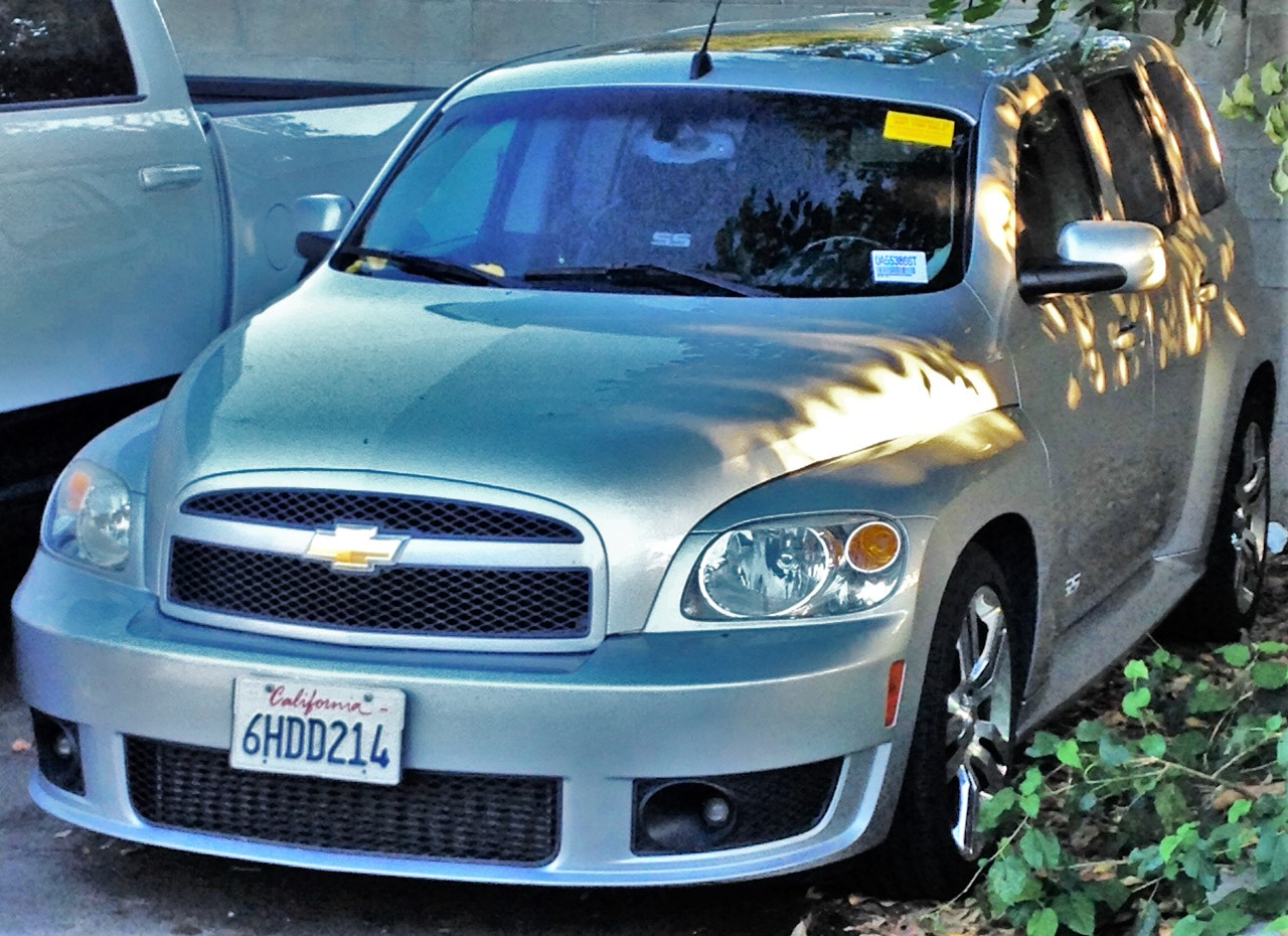 Rare Chevy HHR SS